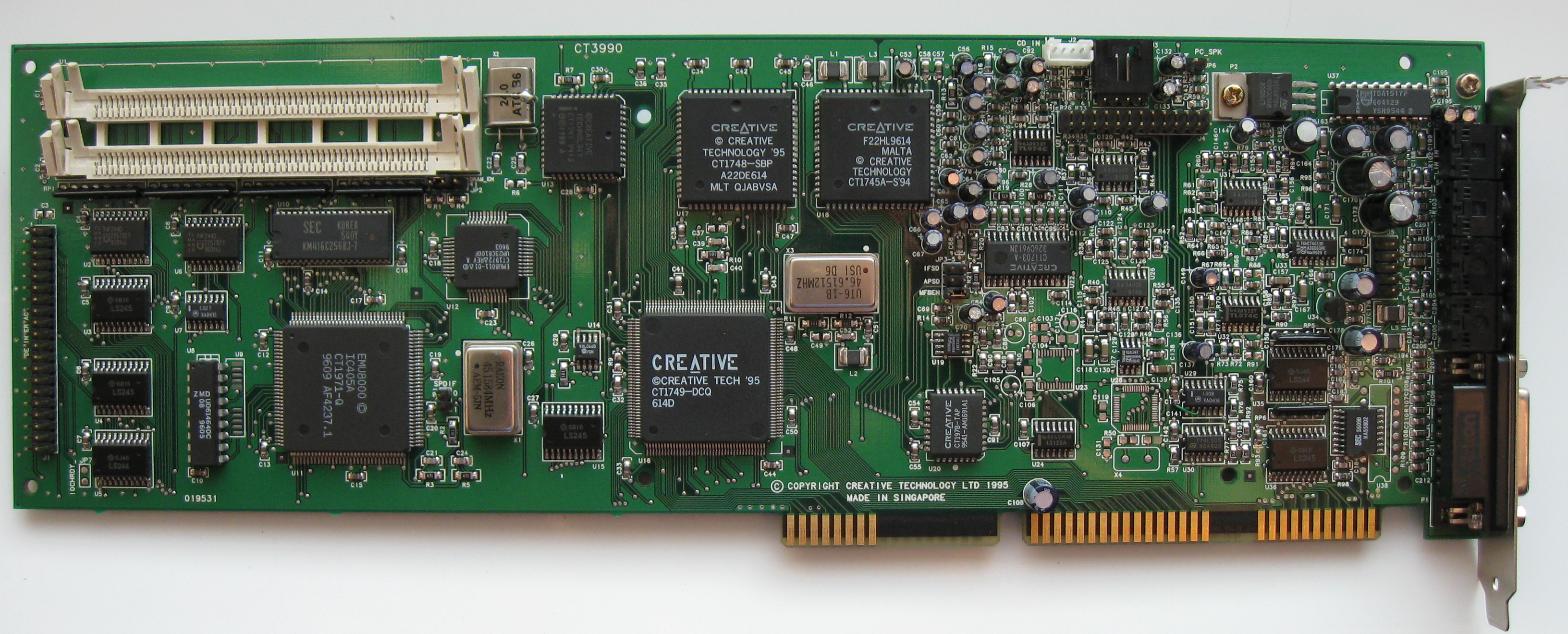 Creative Labs, Inc. Sound Blaster AWE32 PNP CT3990 with ASP chip FCC ID : IBACT-SBAPNP49 The CT3990 is the latest version of AWE32 with EMU-8000 wavetable synthesizer processor, and the latest Creative card that can use Advanced Signal Processor. Chips: CT1703 (CT1703-A) = 8/16-bit ADC/DAC Codec CT1741 (CT1741 V413) = Digital Sound Processor (DSP) v4.13 CT1745 (CT1745A-S) = Mixer chip CT1748 (CT1748-SBP) = Advanced Signal Processor (ASP) also known as: Creative Signal Processor (CSP) CT1749 (CT1749-DCQ) = Plug-and-Play ISA Bus interface chip CT1971 EMU-8000 (CT1971-Q) = E-mu wavetable synthesizer processor CT1972 EMU-8011 (CT1972Δ) = E-mu 1MB sample ROM CT1978 (CT1978-TAP) = CQM (Creative Quadratic Modulation) chip that largely emulate the features of the OPL-3 chip (the emulation of OPL-3 is far from perfect)